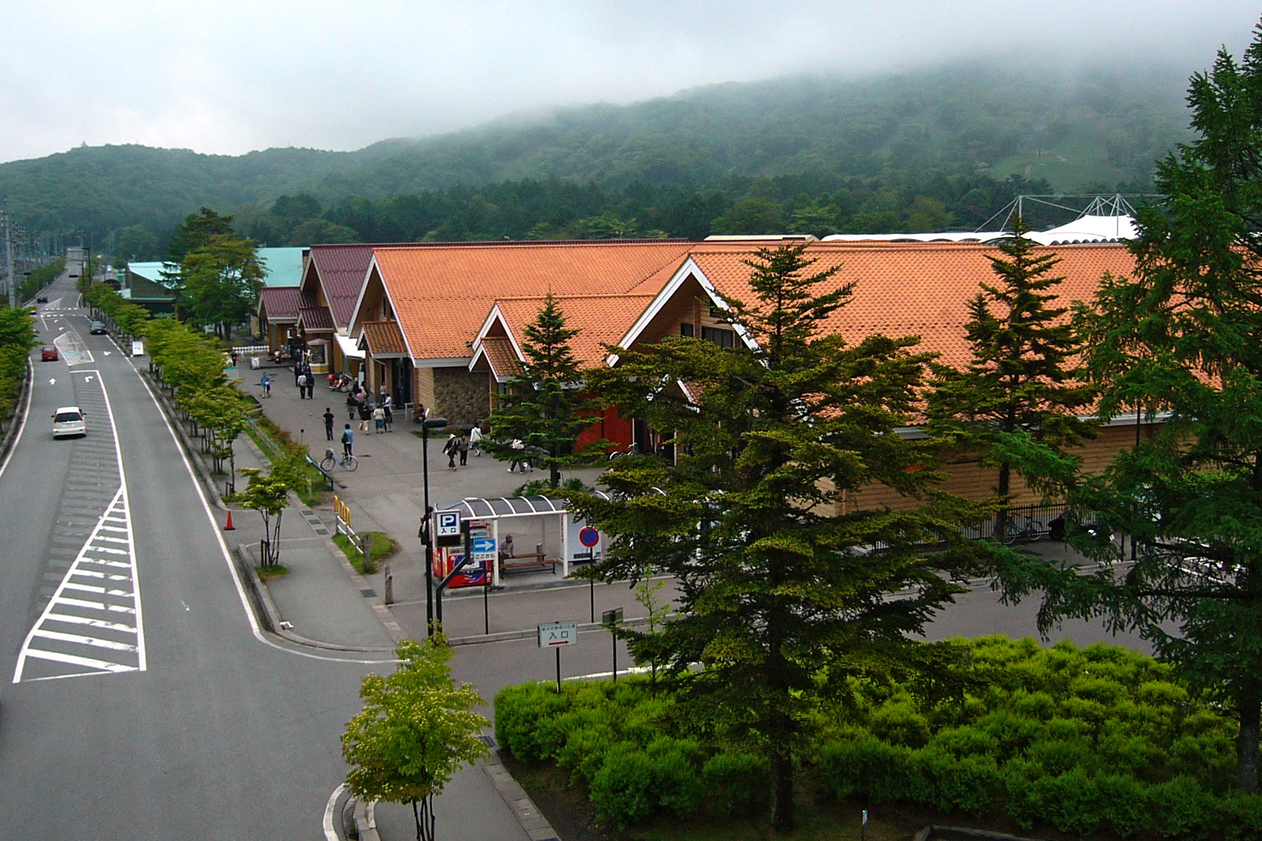 The World Toy Museum in Karuizawa, Nagano, Japan